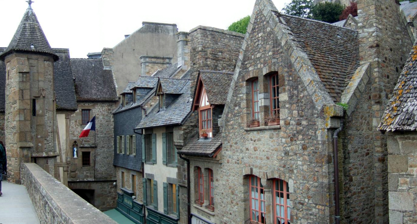 panoramic shot of the village about half way up the mount taken by me